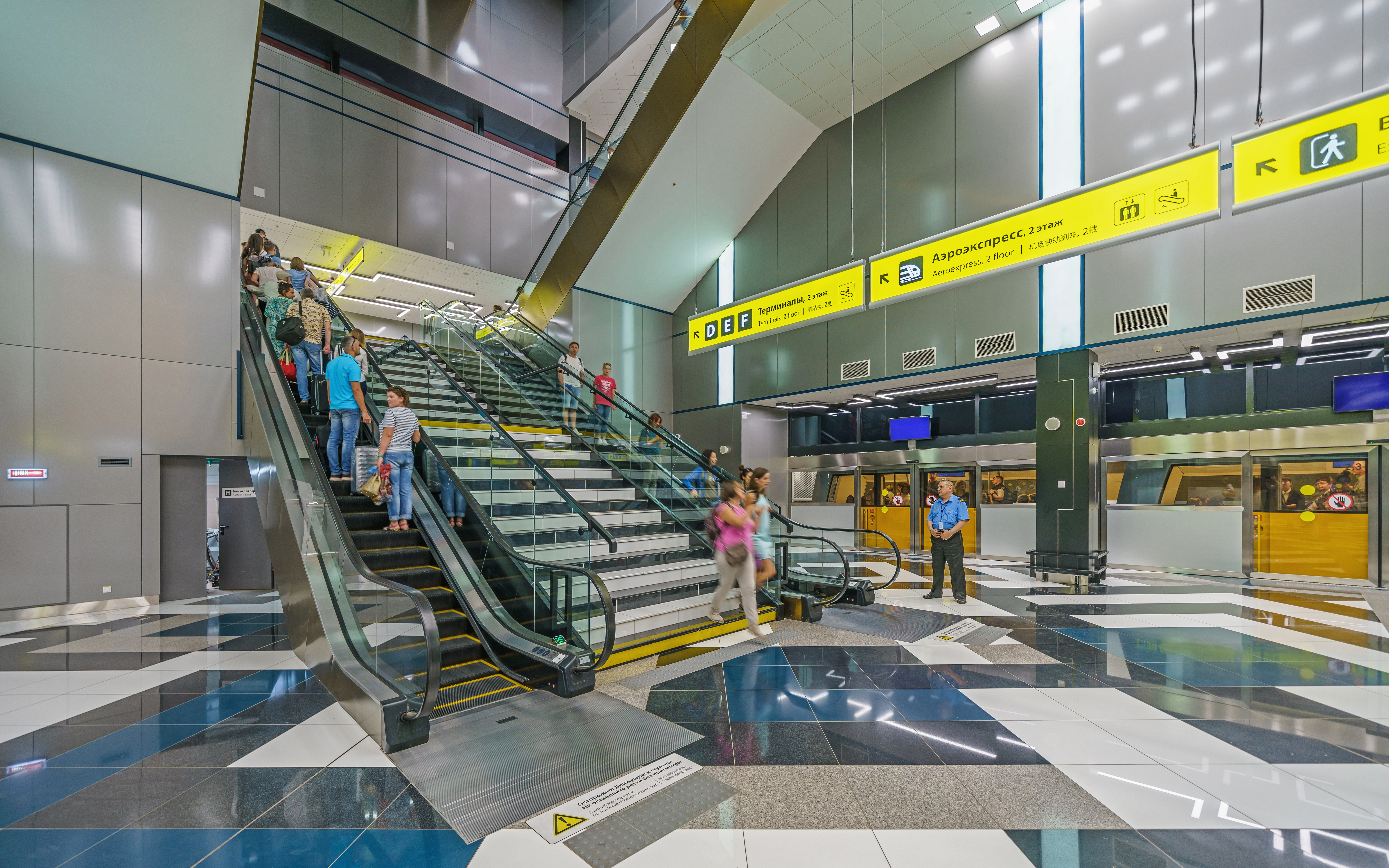 Sheremetyevo-2 station of the cross-terminal underground peoplemover at Sheremetyevo Int. Airport, Moscow Oblast, Russia.